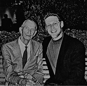 Jan Karski and Andrew Heinze at Opera Plaza in San Francisco